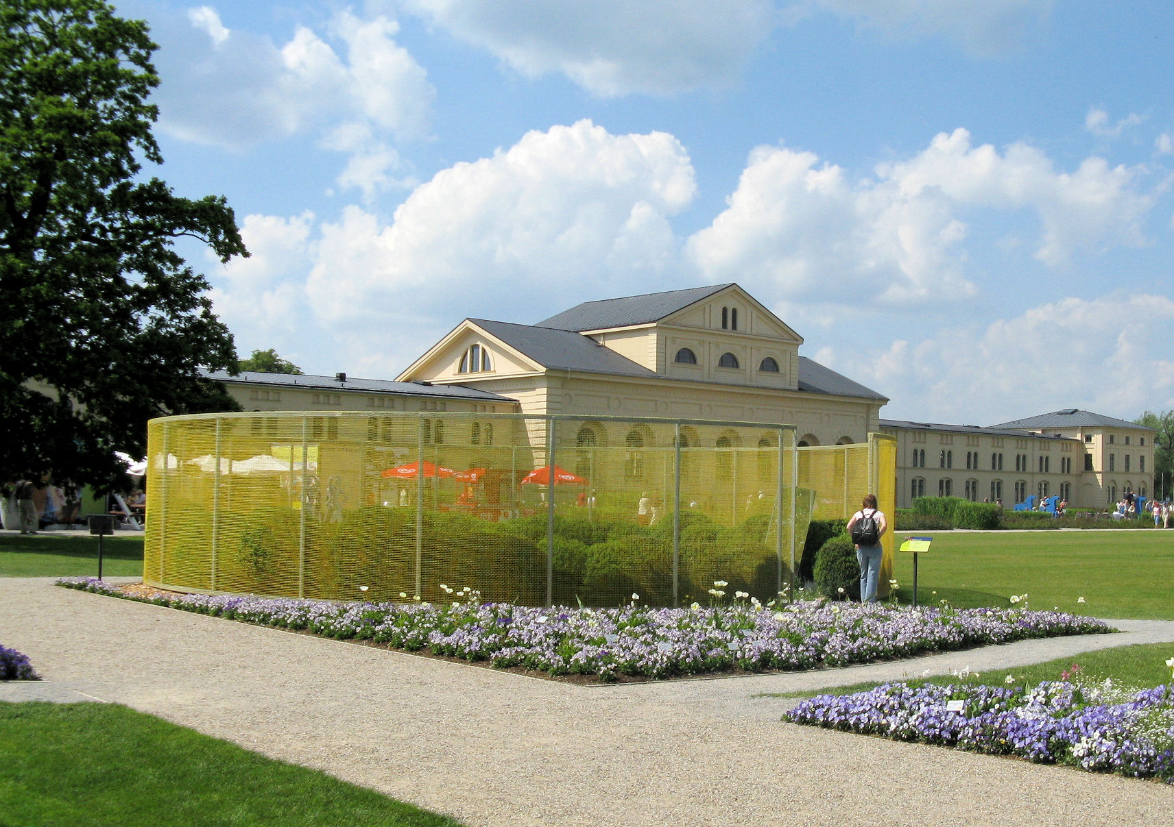 Bundesgartenschau 2009 - Garden at Stable in Schwerin, Mecklenburg-Vorpommern, Germany